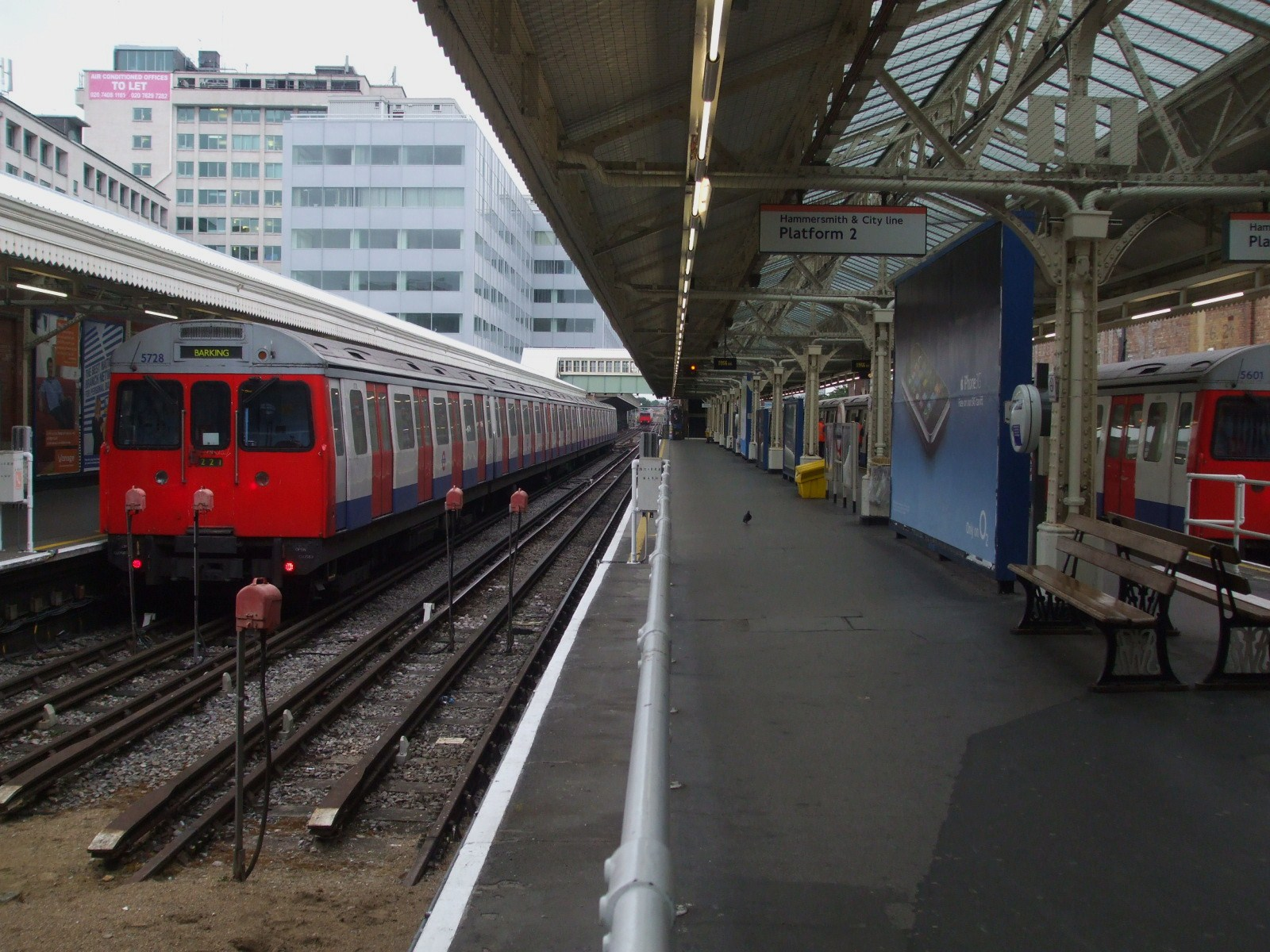 Hammersmith station (Hammersmith & City line) platforms 1 (left) and 2 looking north. Platform 3 is on the right